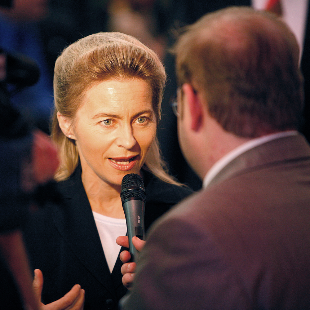 Ursula von der Leyen, 2006